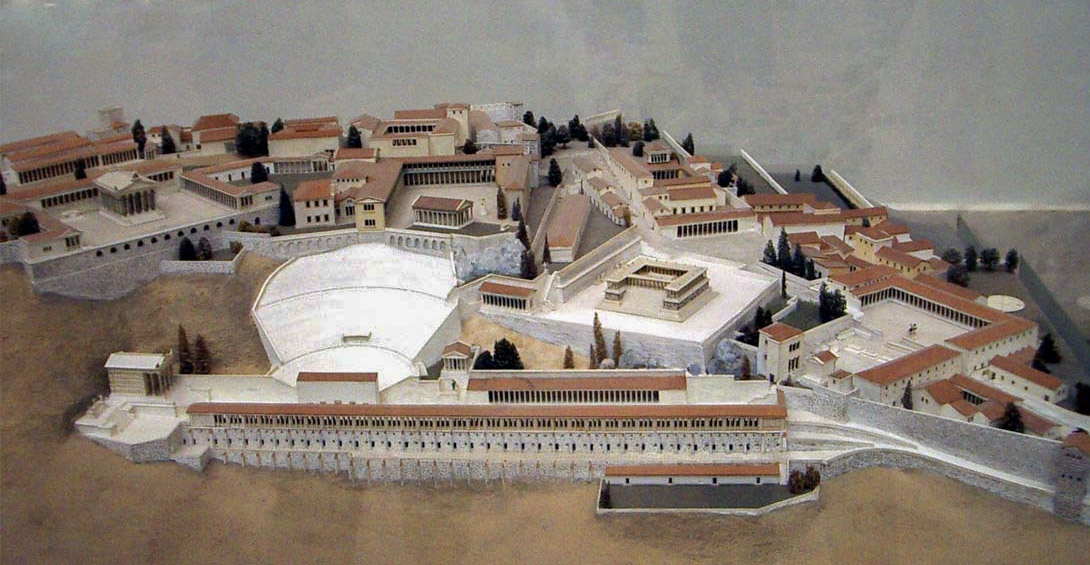 A model of the acropolis of the ancient Greek city of Pergamon, showing the situation in the 2nd century AD, by Hans Schleif (1902-1945).